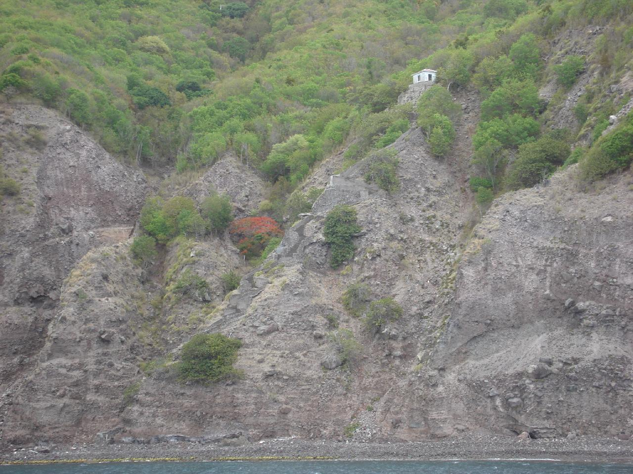 the house on top of this hill used to be the customs house in the old days. If you look closely you can see the stairs leading to it. can you imagine hauling your goods off the ship up those steeeeeep stairs to the customs house?